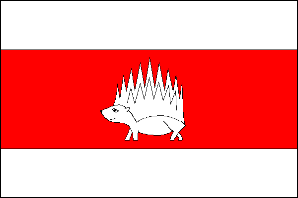 Flag of Vícov, Prostějov District